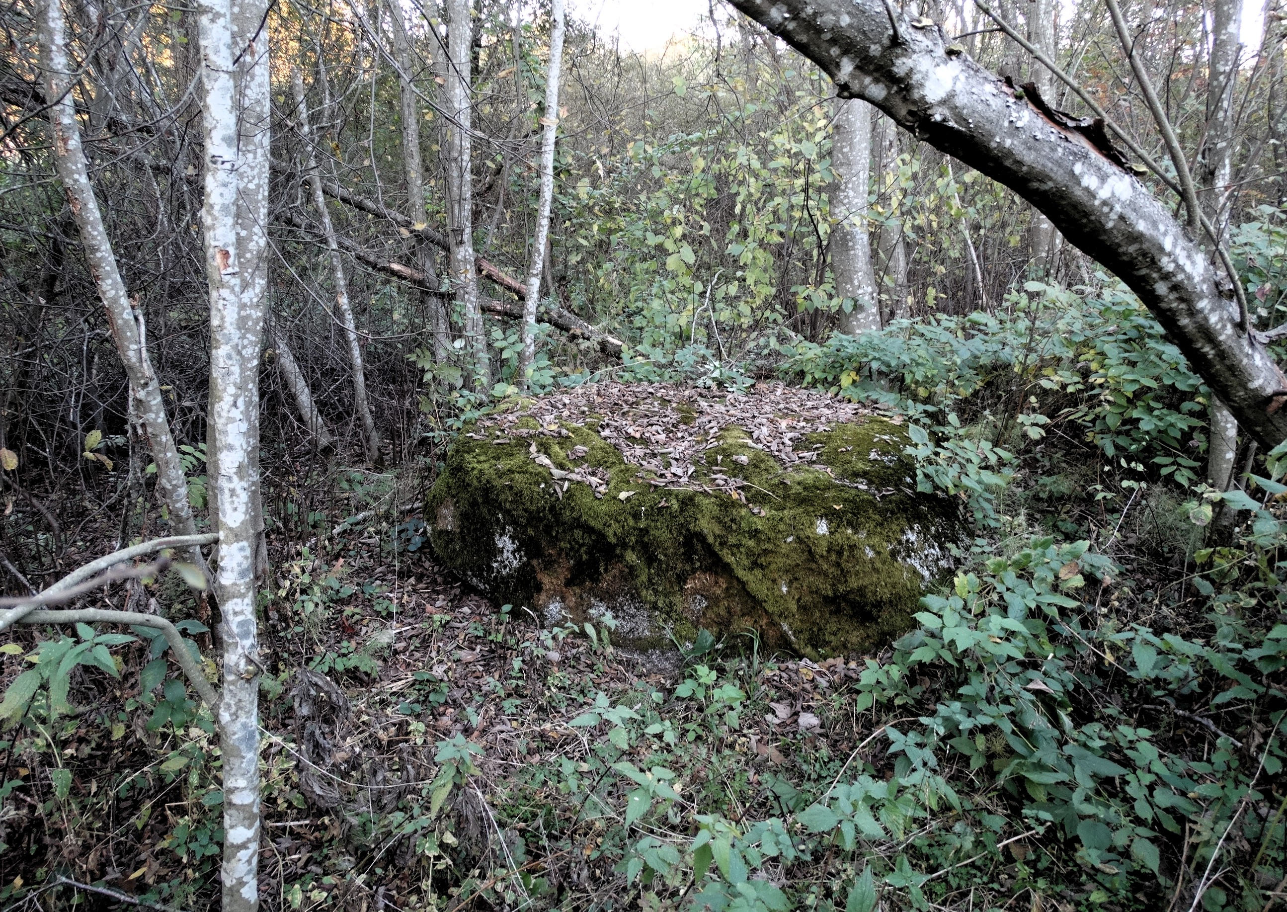 Čigonės Stone, Ringailiai, Kaišiadorys district, Lithuania